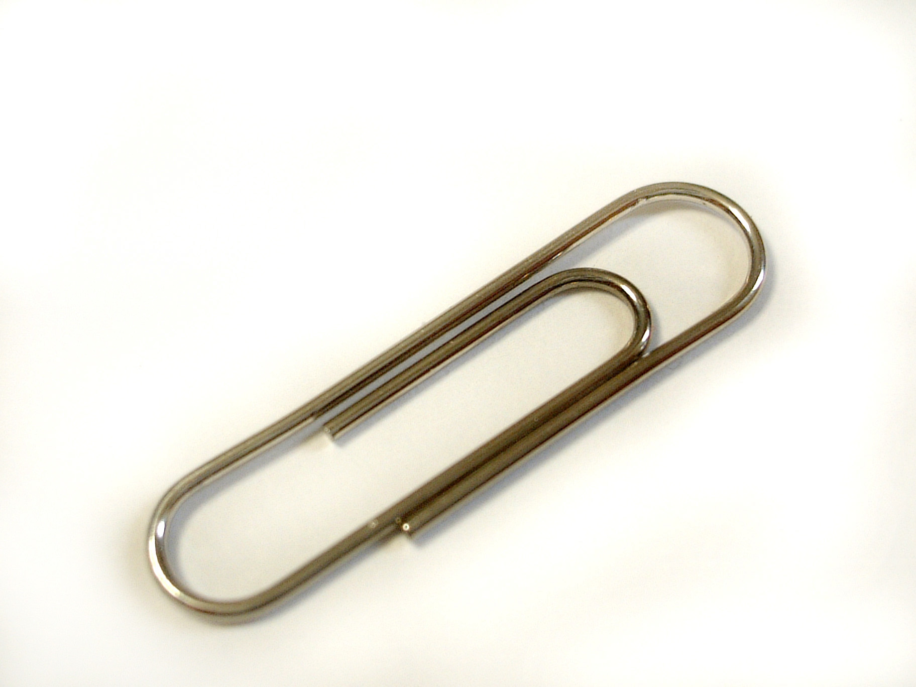 Paper clip. Photo taken in Tokyo Japan.